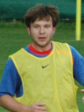 Ivan Saenko. Euro 2008